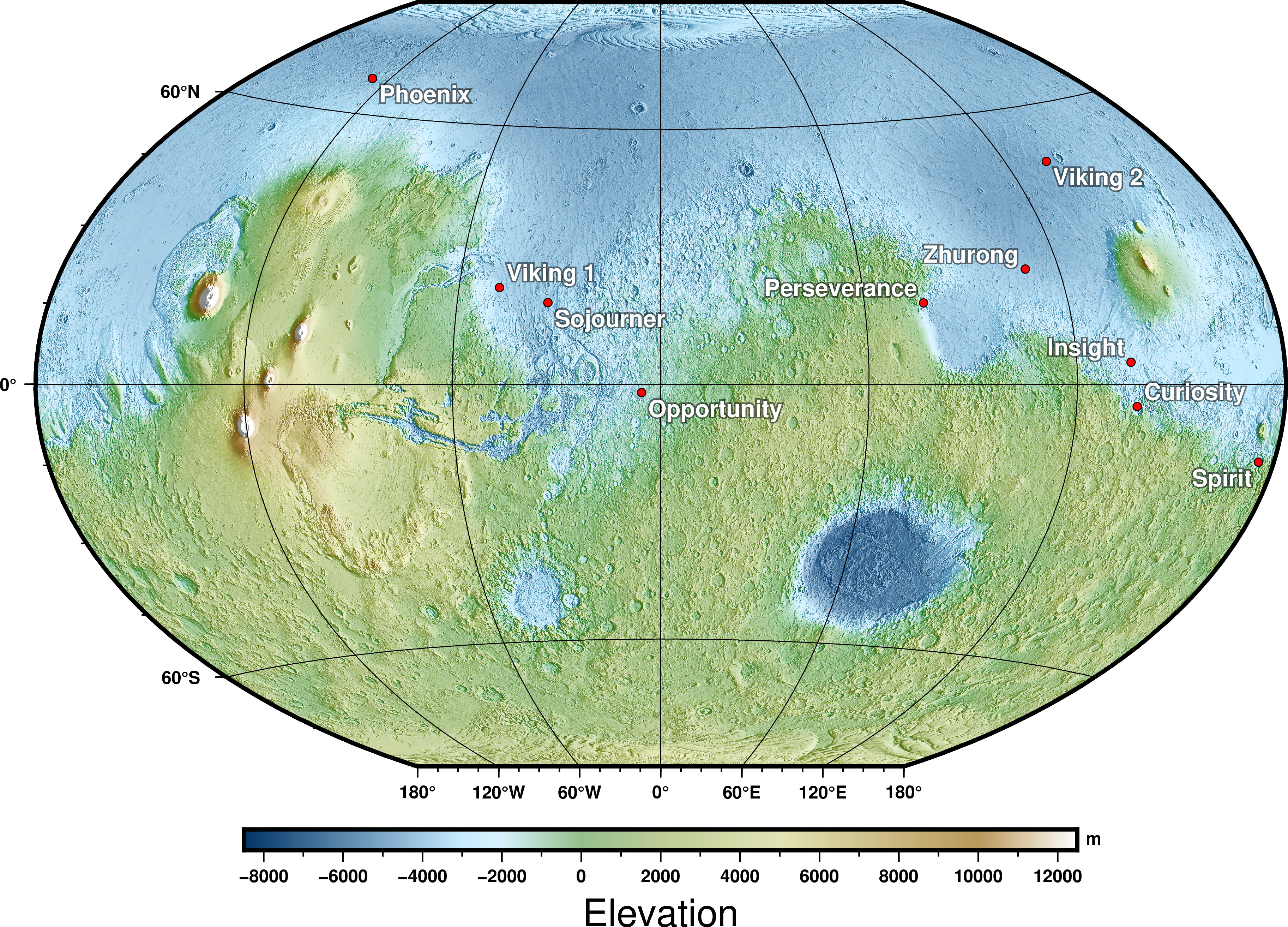 Position of succesful landers and rovers superimposed on Mars Orbiter Laser Altimeter (MOLA) topography data using a Winkel Tripel projection.